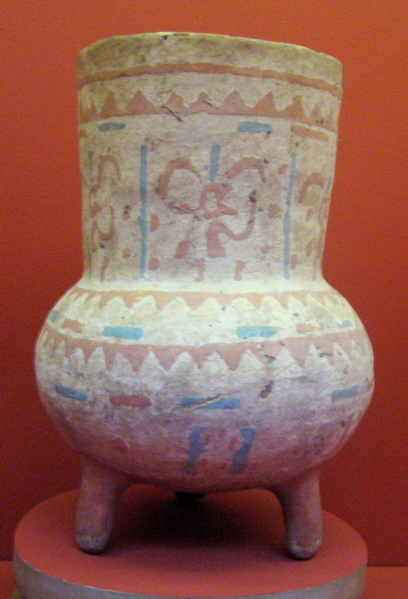 Arizona, Pre-Columbian Hohokam, Casa Grande Vessel, CE 600-900 Ceramic, Stuccoed ceramic with post-fire applied pigments, Height: 10 3/4 in. (27.31 cm); Diameter: 7 1/4 in. (18.42 cm) Gift of the Ruth and George C. Kennedy Collection (M.2005.147.6) Wikipedia Loves Art at the Los Angeles County Museum of Art This photo of item # M.2005.147.6 at the Los Angeles County Museum of Art was contributed under the team name "artifacts" as part of the Wikipedia Loves Art project in February 2009. Los Angeles County Museum of Art The original photograph on Flickr was taken by Beesnest McClain—please add a comment to the original Flickr page whenever a use has been made on Wikipedia or another project. Project galleries on Flickr: this institution, this team